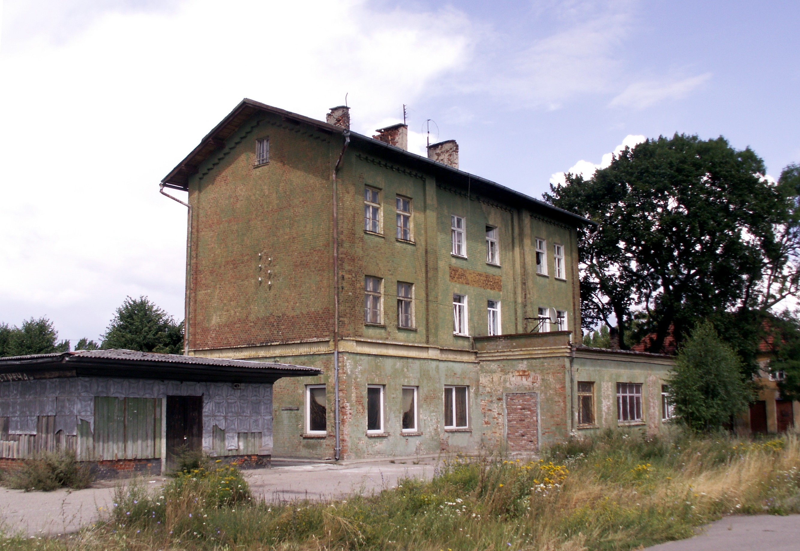 Yantarny in Kaliningrad oblast